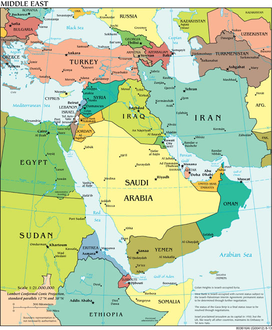 "Political Middle East" map from the CIA World Factbook website.